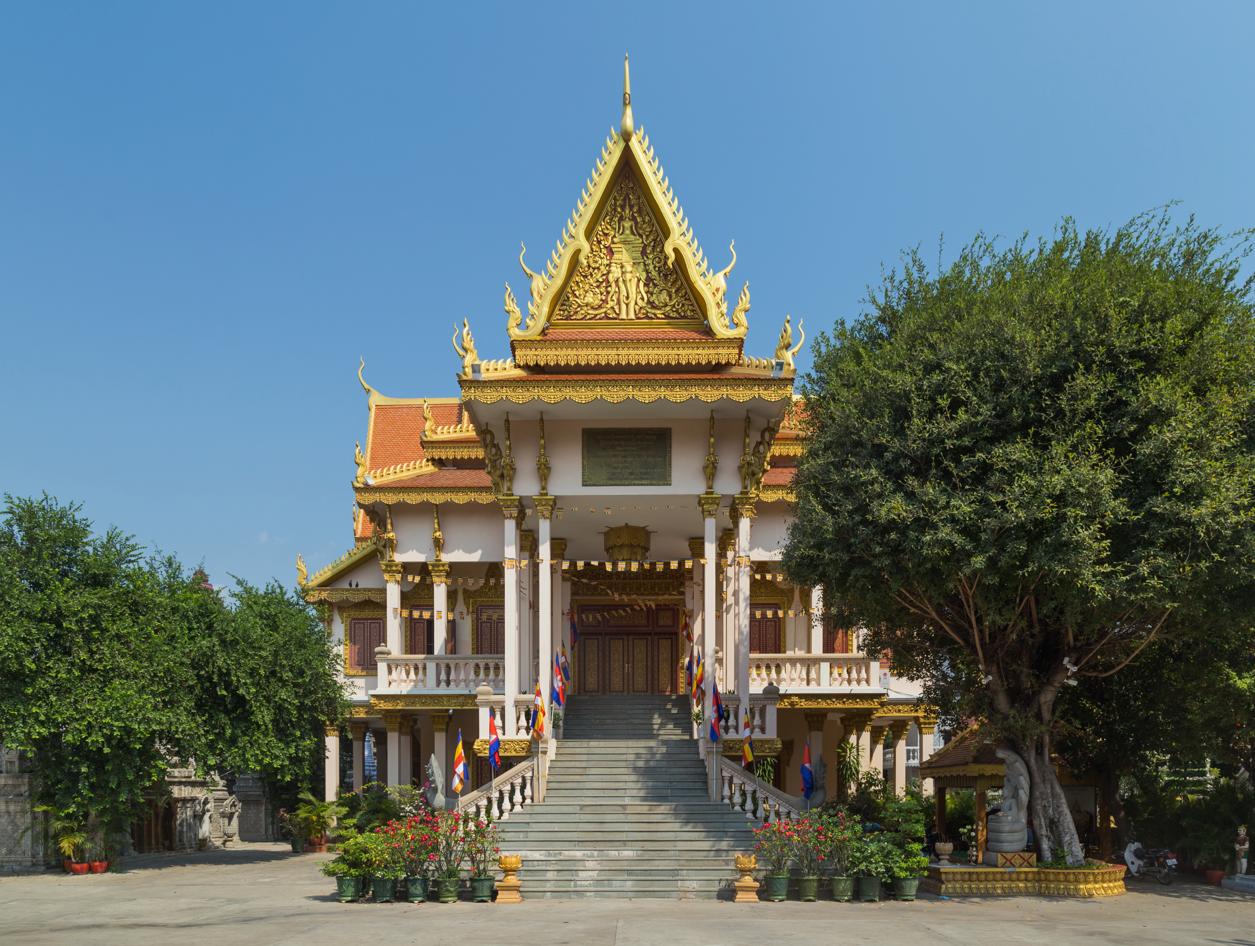 Main temple. Wat Langka. Phnom Penh, Cambodia.